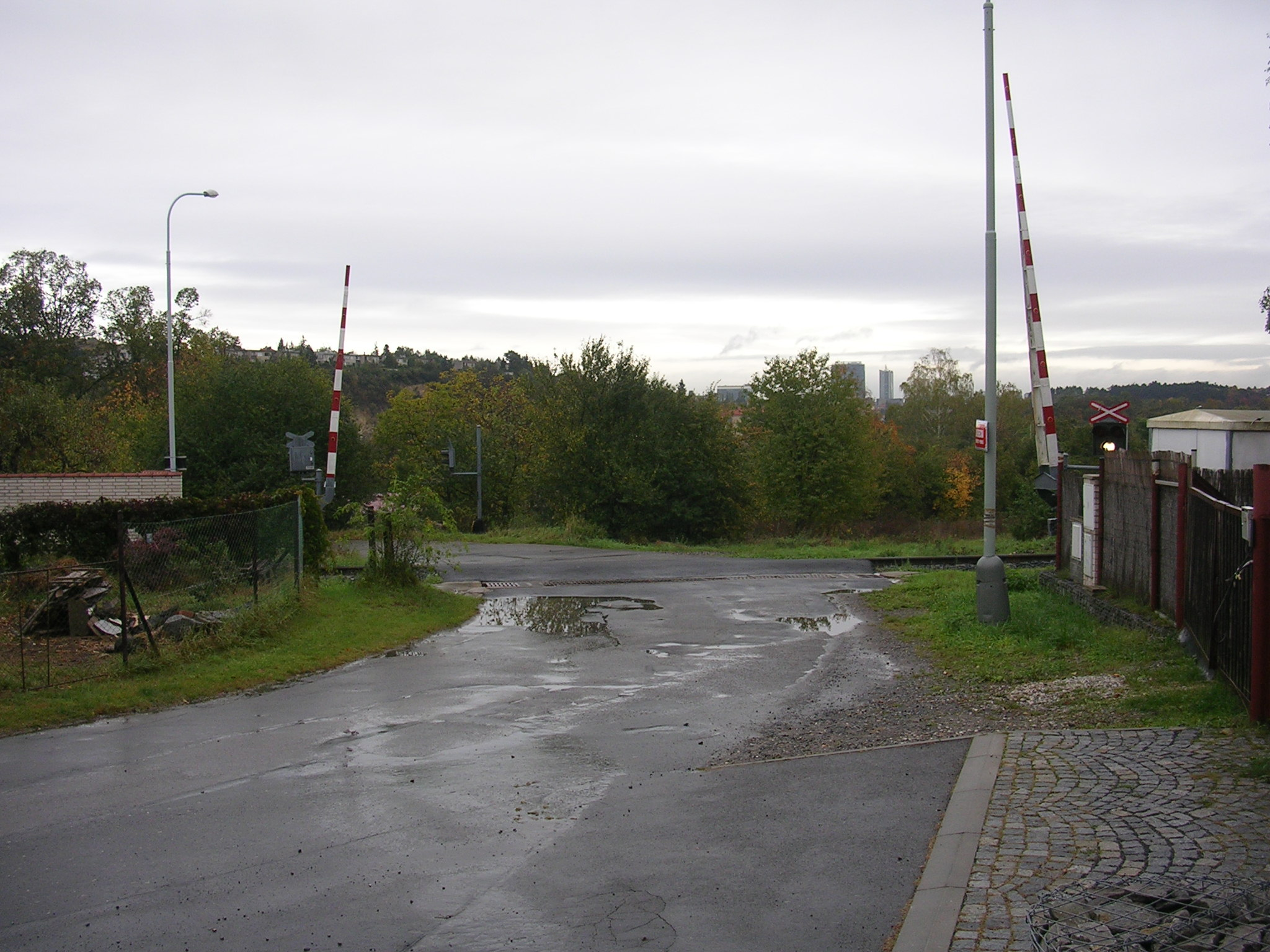 Prague-Hlubočepy, the Czech Republic. Slivenecká street and the Prague Semmering, seen from Lochkovská street.